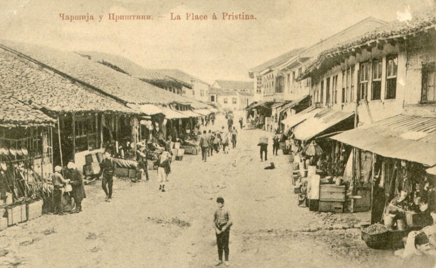 Old Pristina